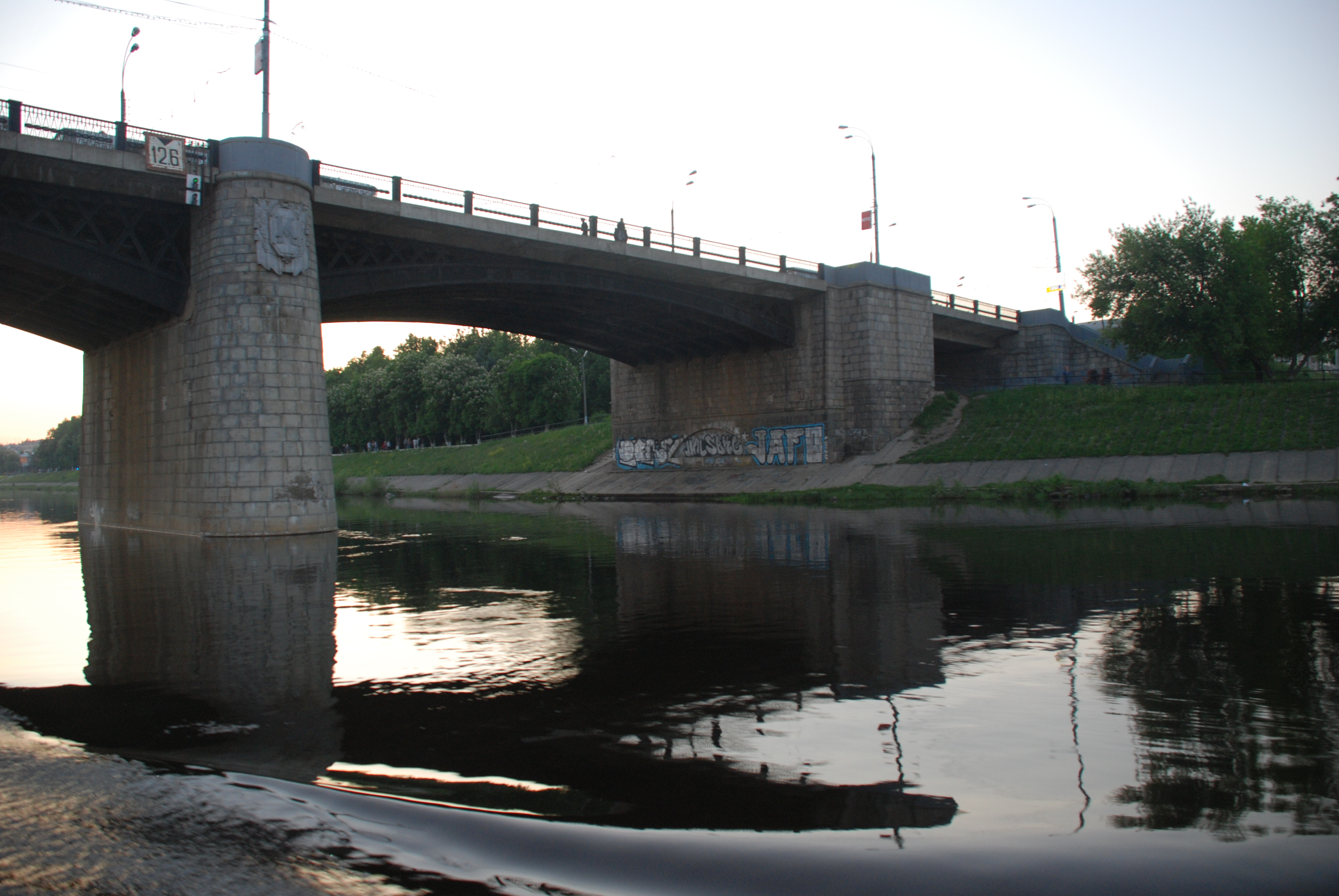 Novovolzhsky bridge (Tver). View from a boat.